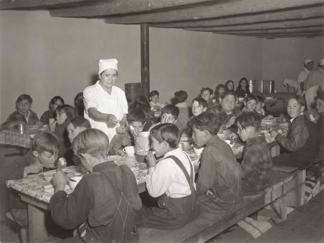 Schoolchildren eating hot school lunches made up primarily of food from the surplus commodities program. Taken at a school in Penasco, New Mexico, United States.